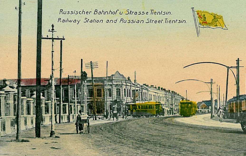 Historical postcard of China